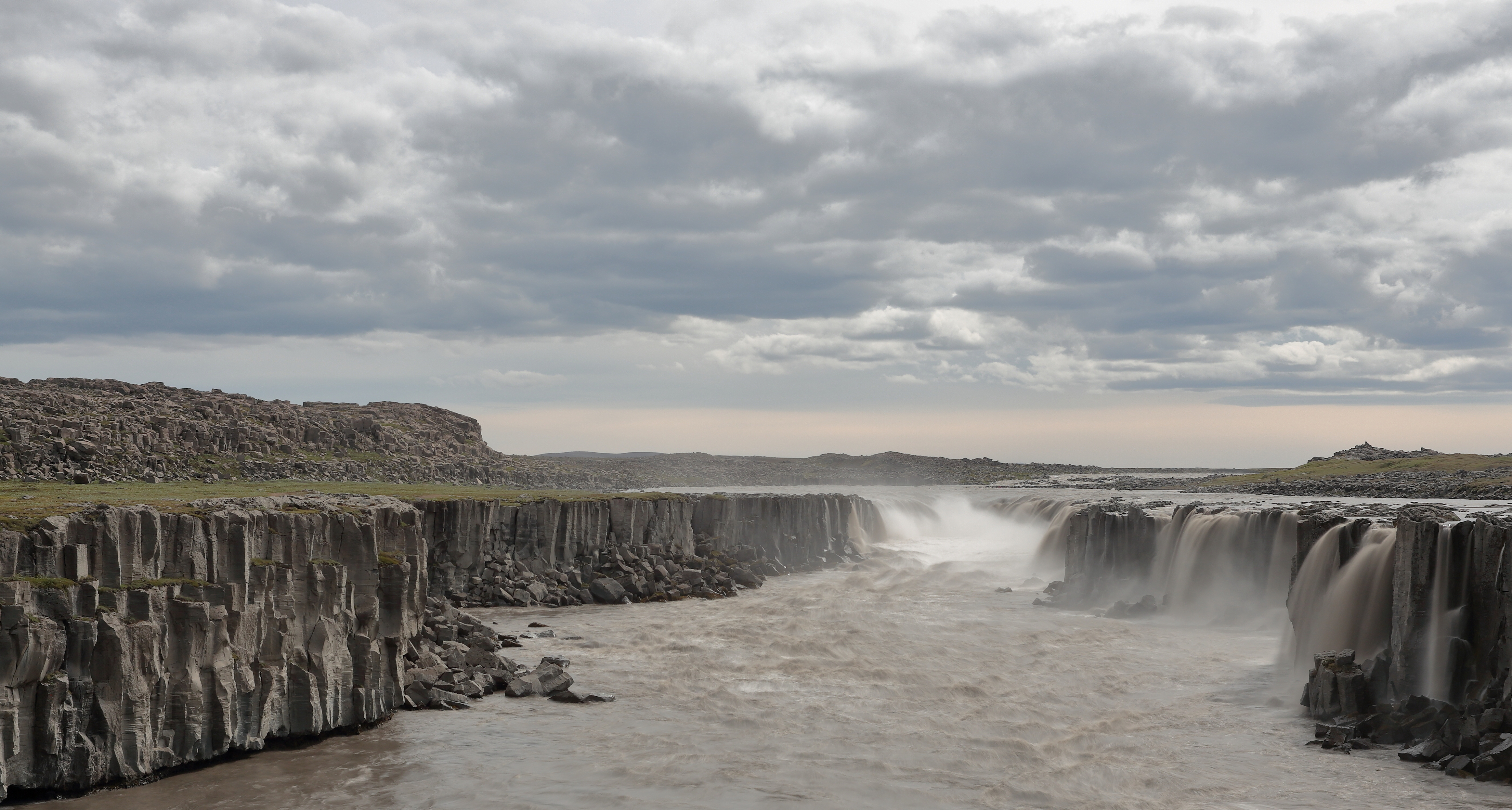 Selfoss, Iceland, July 2014